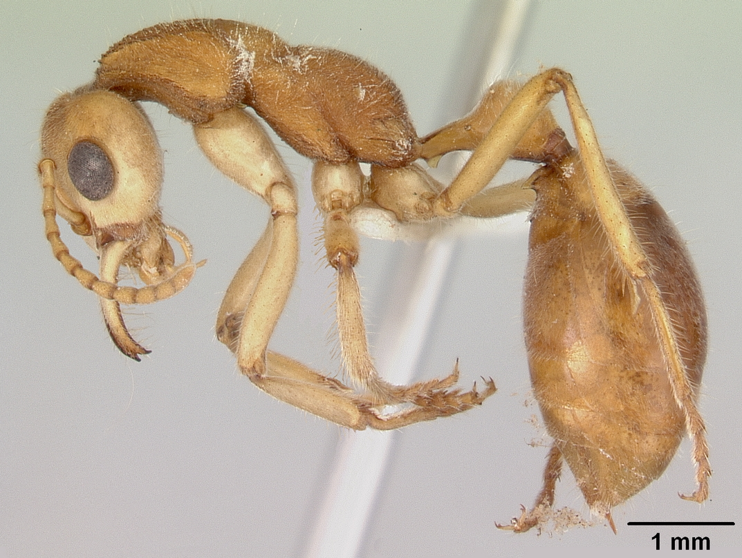 Profile view of ant Nothomyrmecia macrops specimen casent0172002.